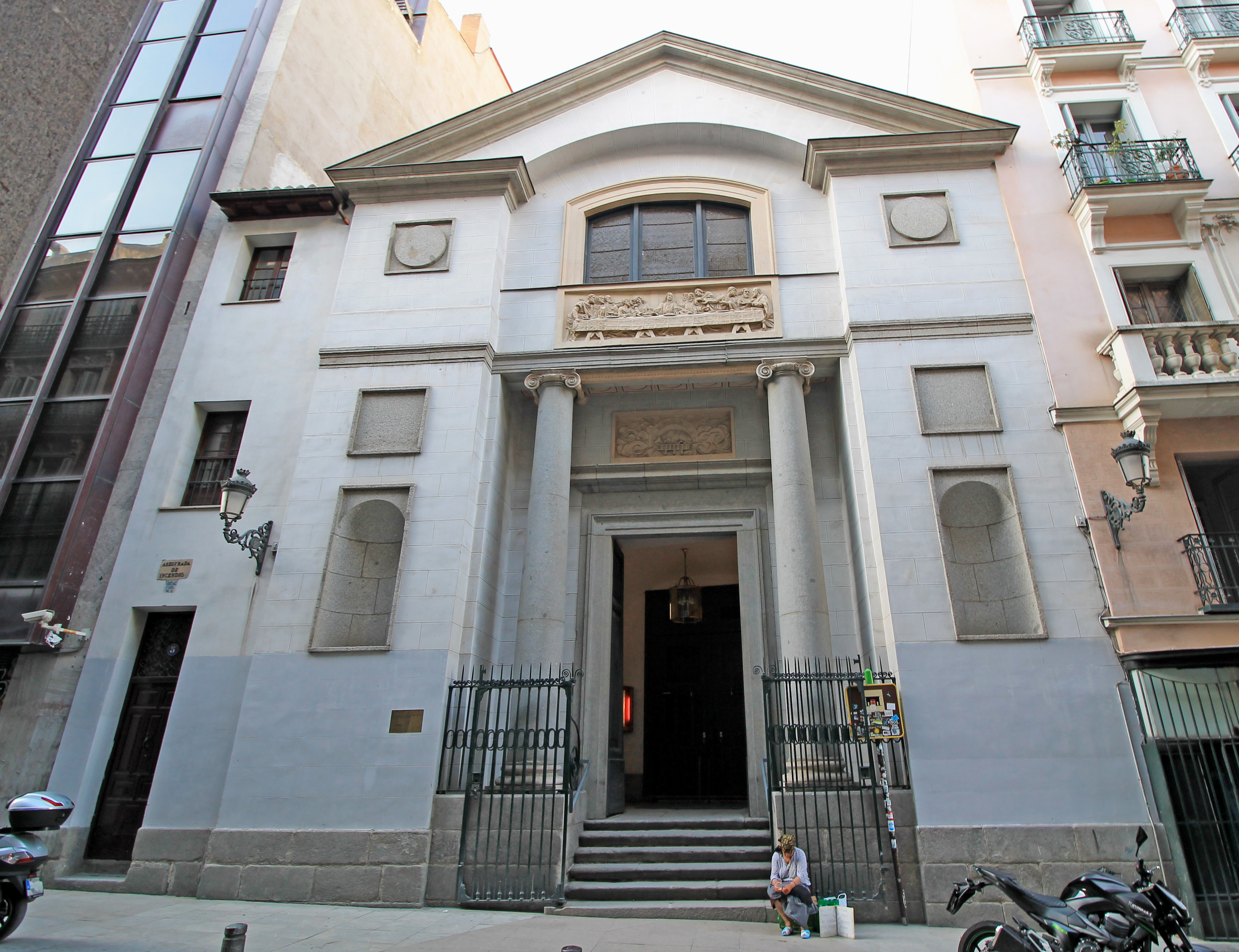 South façade of Real Oratorio del Caballero de Gracia in Madrid (Spain).